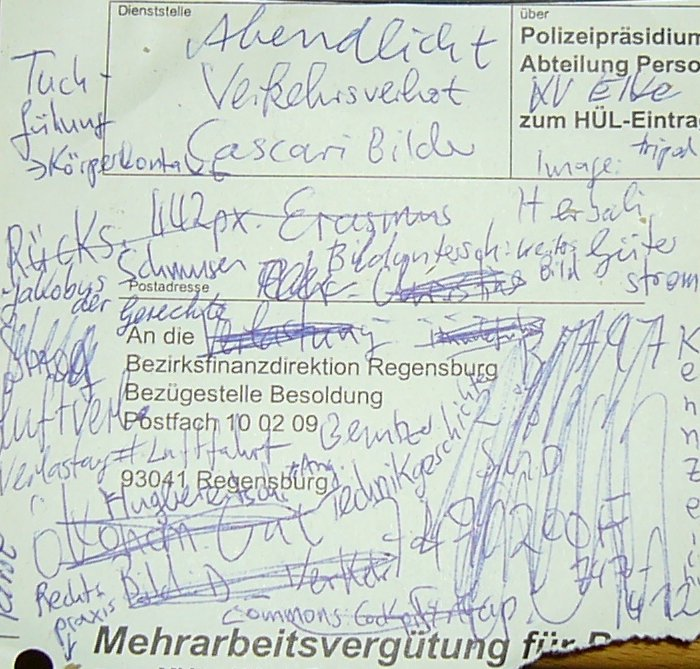 private notes without particular relevance regarding the content.